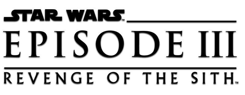 Star Wars: Episode I – The Phantom Menace logo